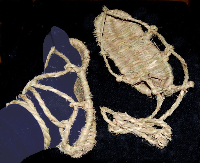 Photo of Waraji; straw sandals